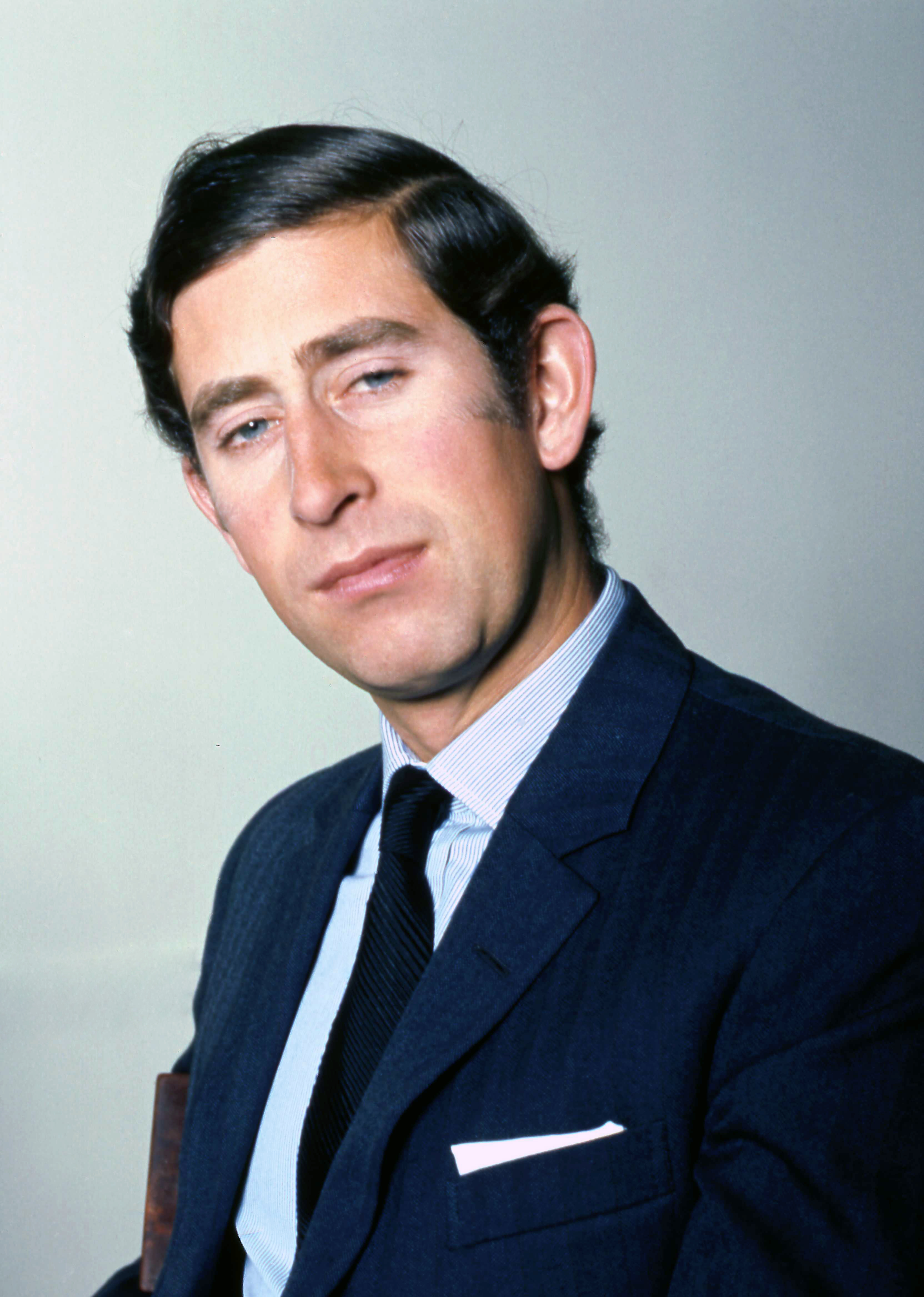 HRH The Prince of Wales taken in Buckingham Palace, London.